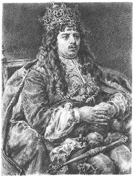 Michał Korybut Wiśniowiecki, pencil drawing by Jan Matejko